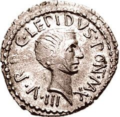 Picture of a coin with the potrait of Lepidus